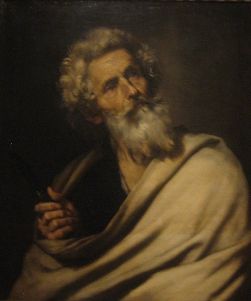 Saint Bartholomewlabel QS:Lde,"St. Bartholomeus"label QS:Len,"Saint Bartholomew"